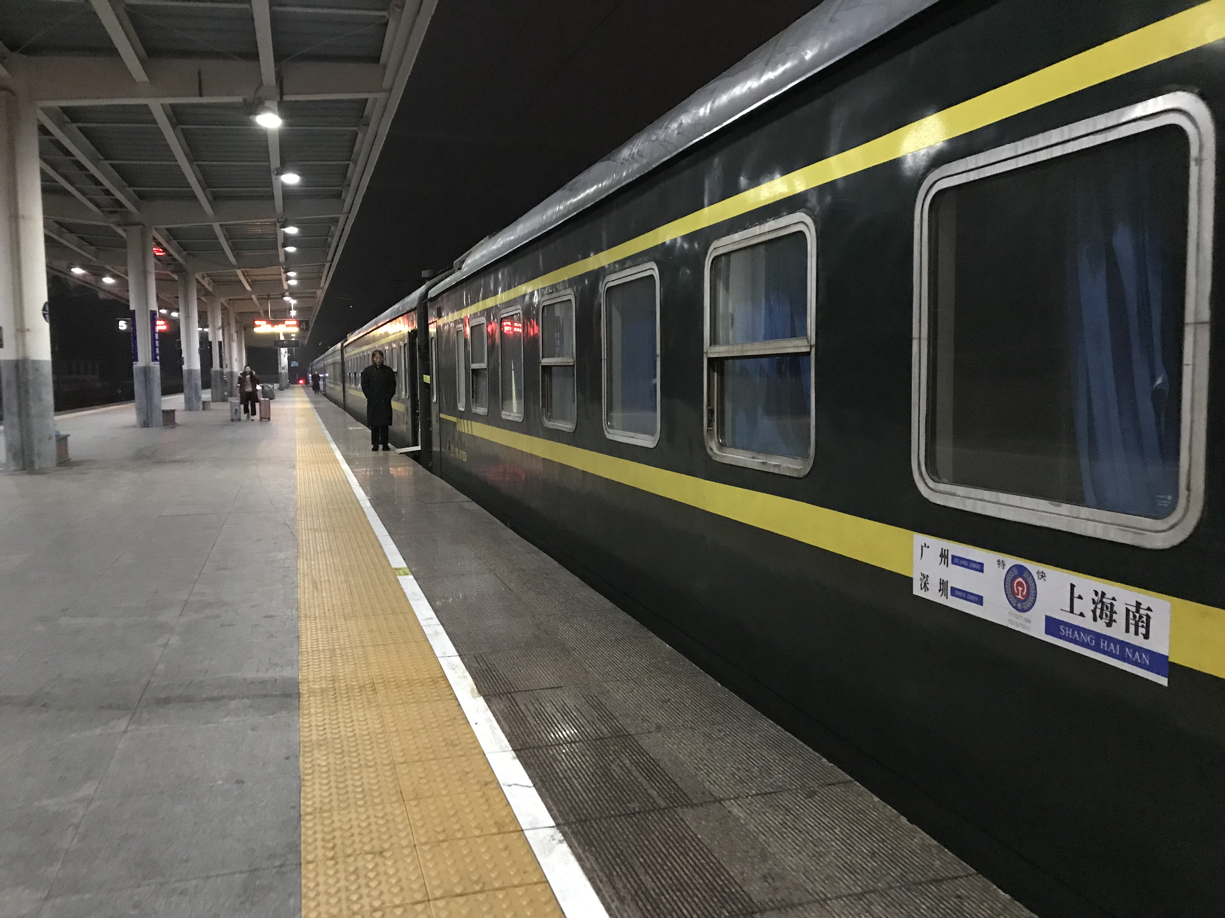 201901 Coaches of T211 from Shanghainan to Shenzhen at Ganzhou Station